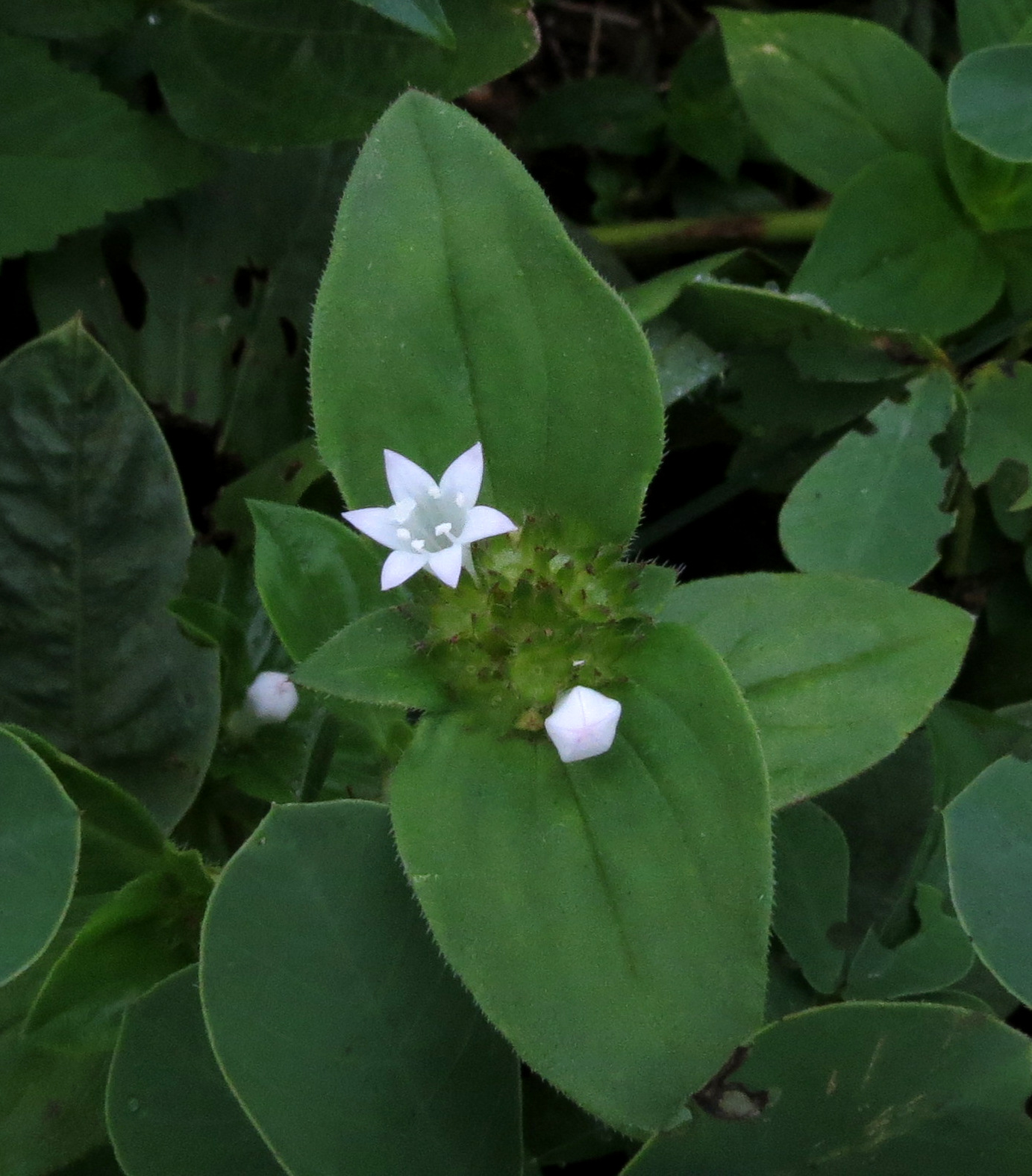 Richardia scabra - Mexican clover in ragihalli bangalore